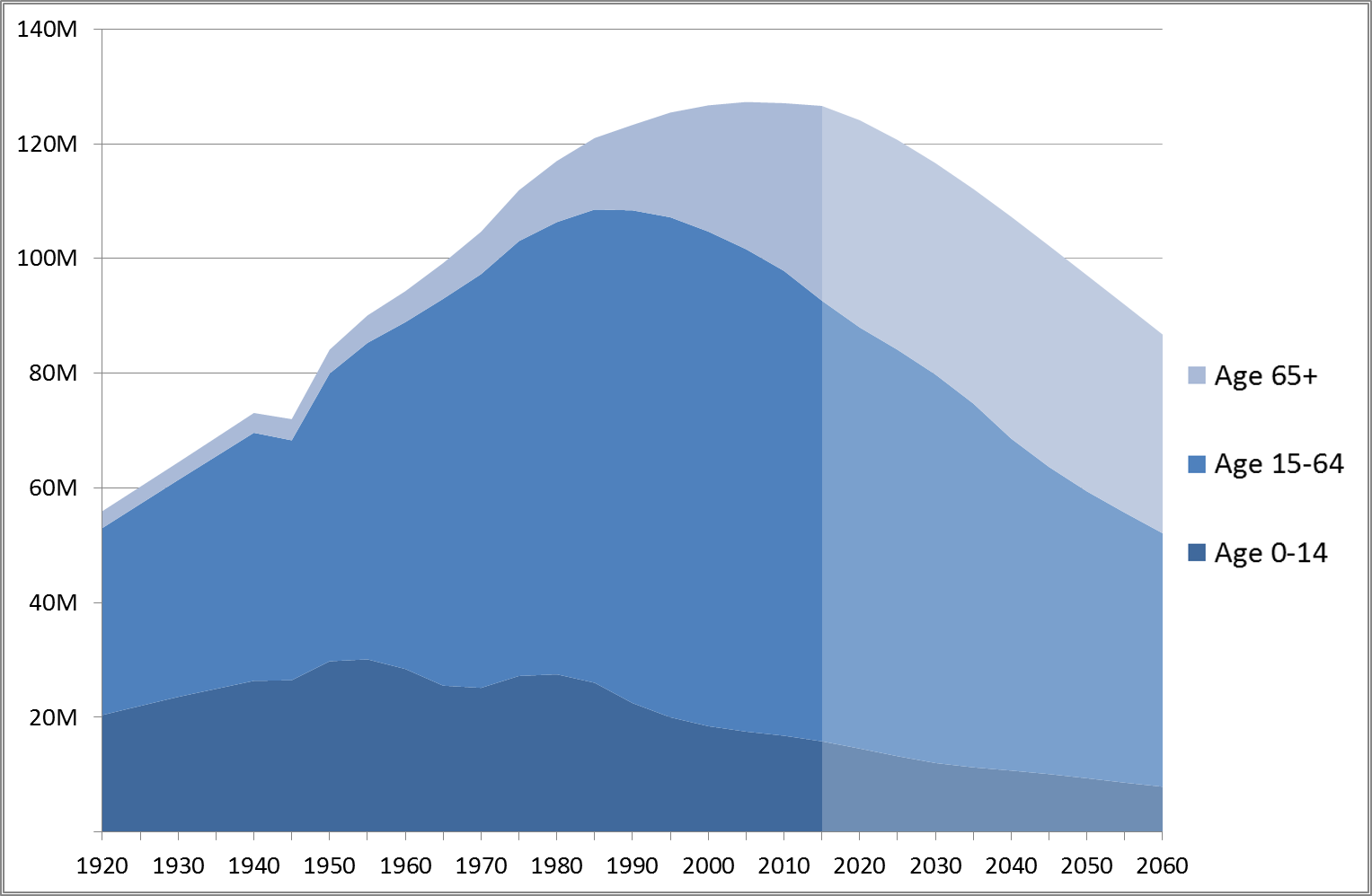 Historic population of Japan (1920-2010) from census results for 1920, 1930, 1940, 1945, 1950, 1955, 1960, 1965, 1970, 1975, 1980, 1985, 1990, 1995, 2000, 2005, 2010. Population projection (2011-2060) from National Institute of Population and Social Security Research (IPSS) Population Projections for Japan (January 2012), based on a medium-fertility assumption, where the age of marriage and the proportion of those who never marry increases while the total fertility rate decreases to 1.35 in 2060.